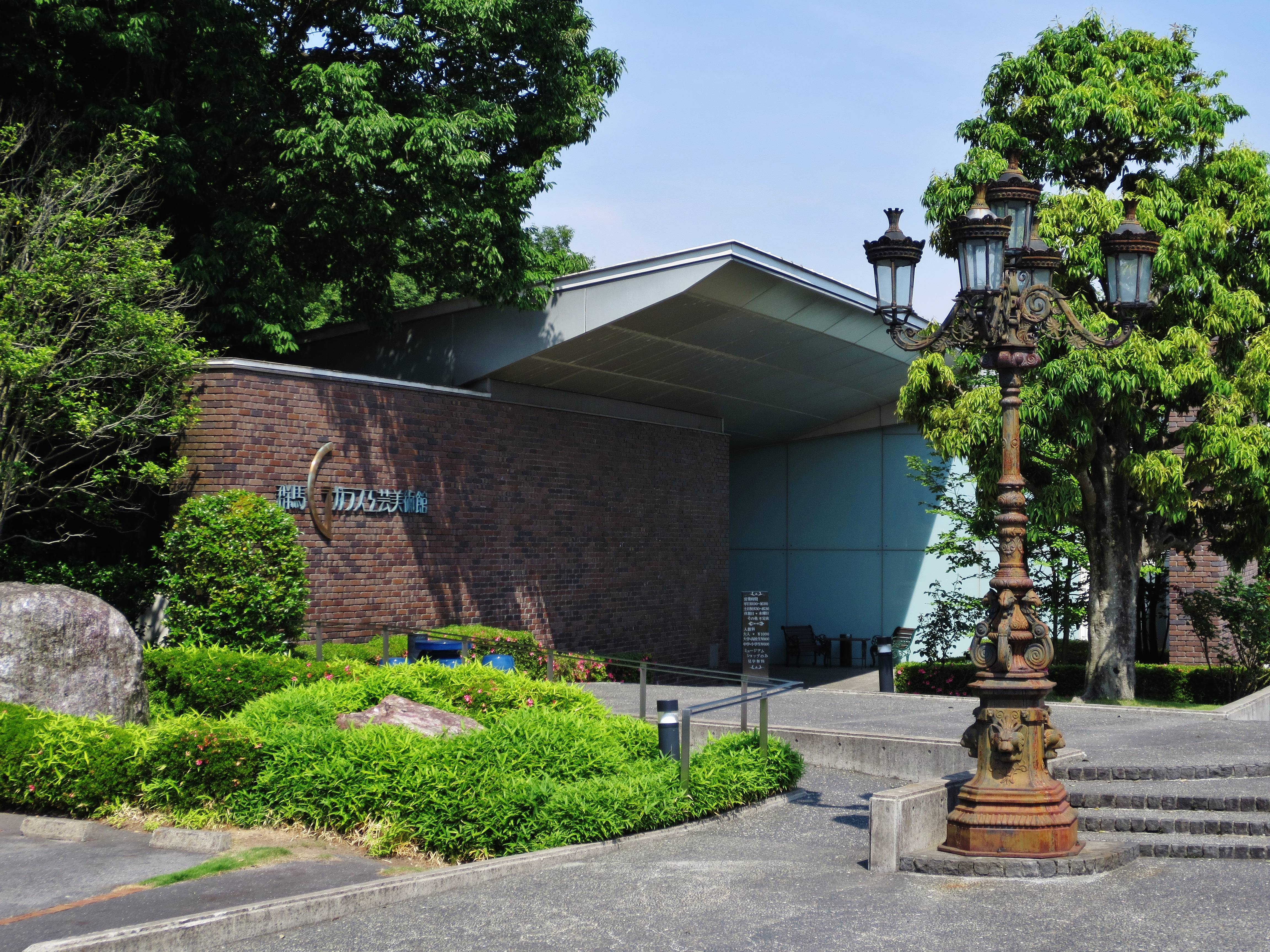 Gumma Glass Art Museum.